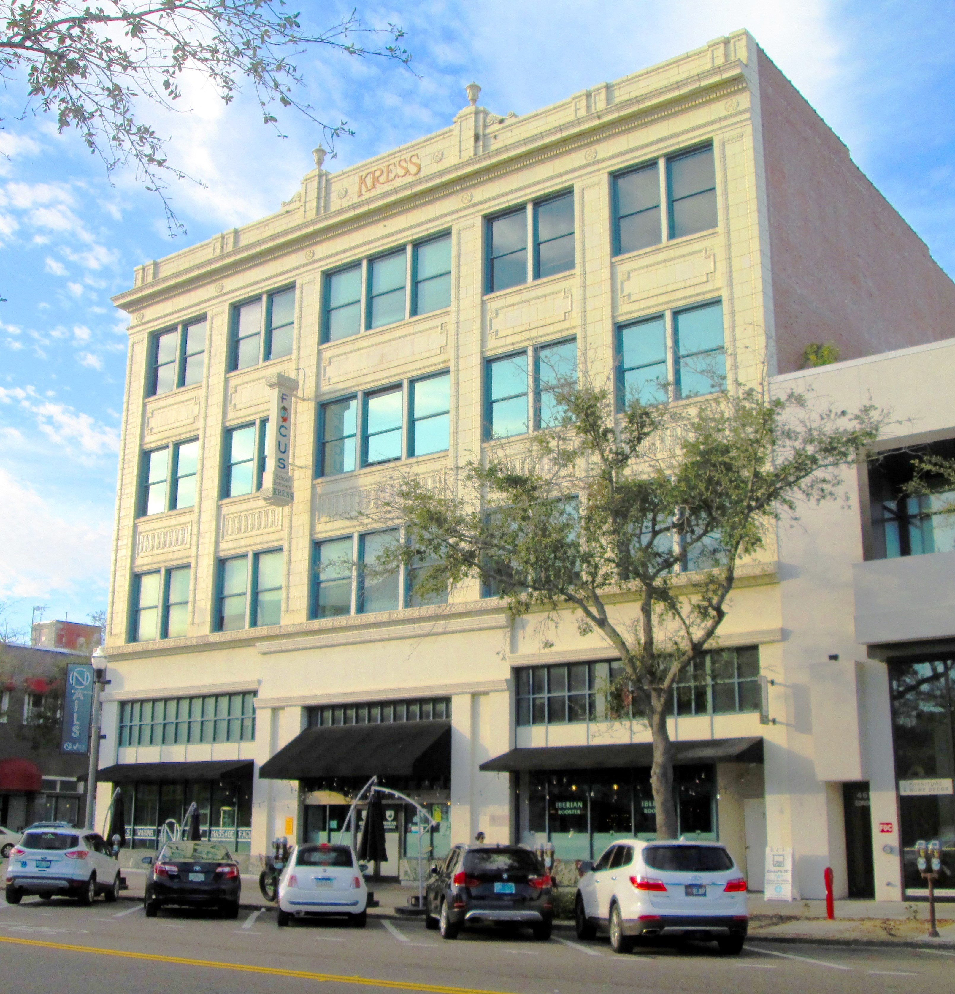 The S. H. Kress and Co. Building located at 475 Central Avenue at the corner of 5th Street S. in downtown St. Petersburg, Florida, was built in 1927 in the classical Commercial style influenced by the Beaux-Arts movement. The architect is unknown, but the Kress Company maintained a staff of architects who designed many of their buildings. The building operated as a "five-and-dime store" from 1927 until the company closed it c.1981. (Source: City of St. Petersburg: The Kress Building) The building is located within the Downtown St. Petersburg Historic District, and was added to the National Register of Historic Places on October 1, 2001.